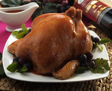 Roasted chicken